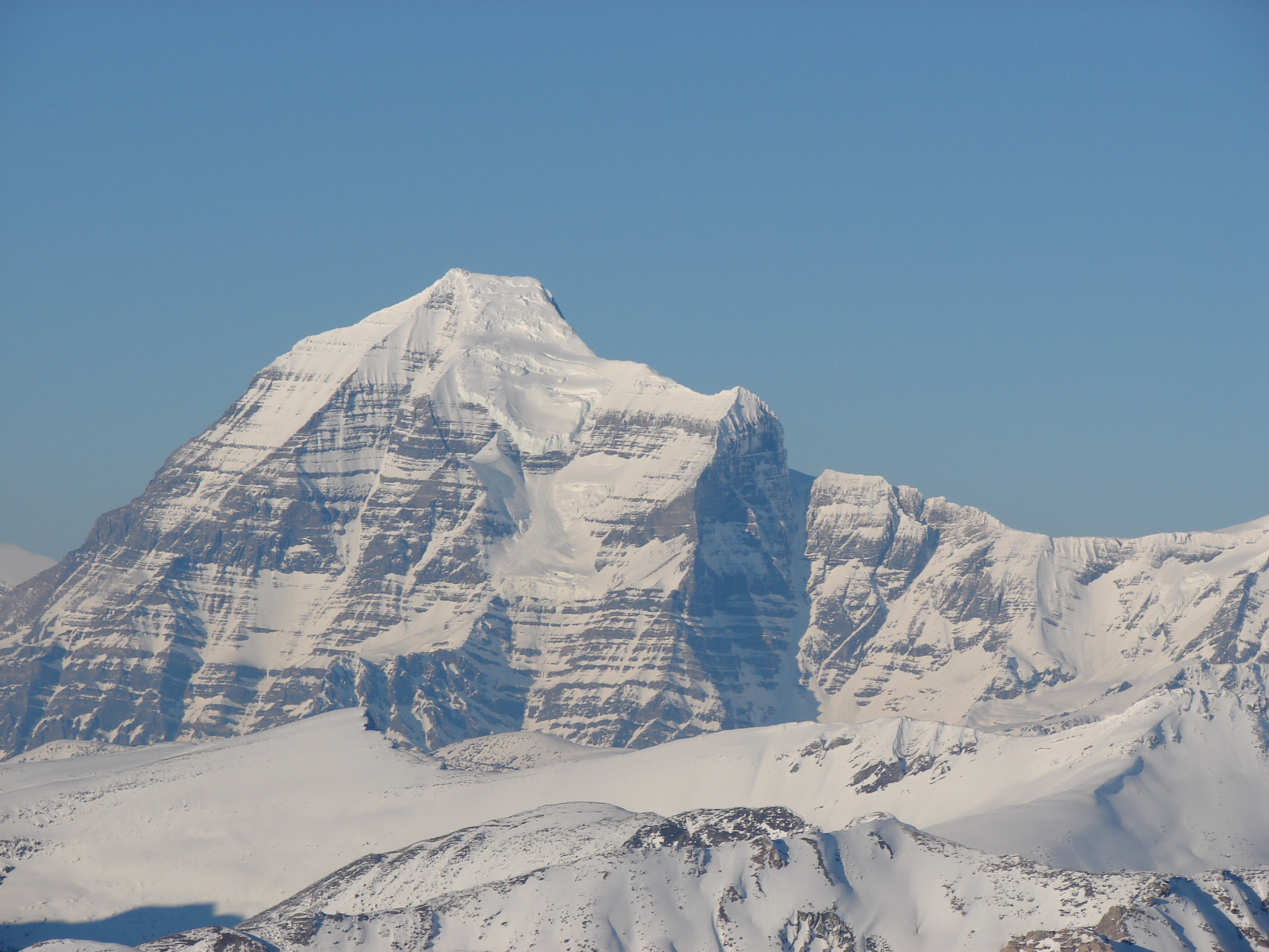 Upper portion of Mount Robson SE face seen from the summit of Mount McKirdy, February